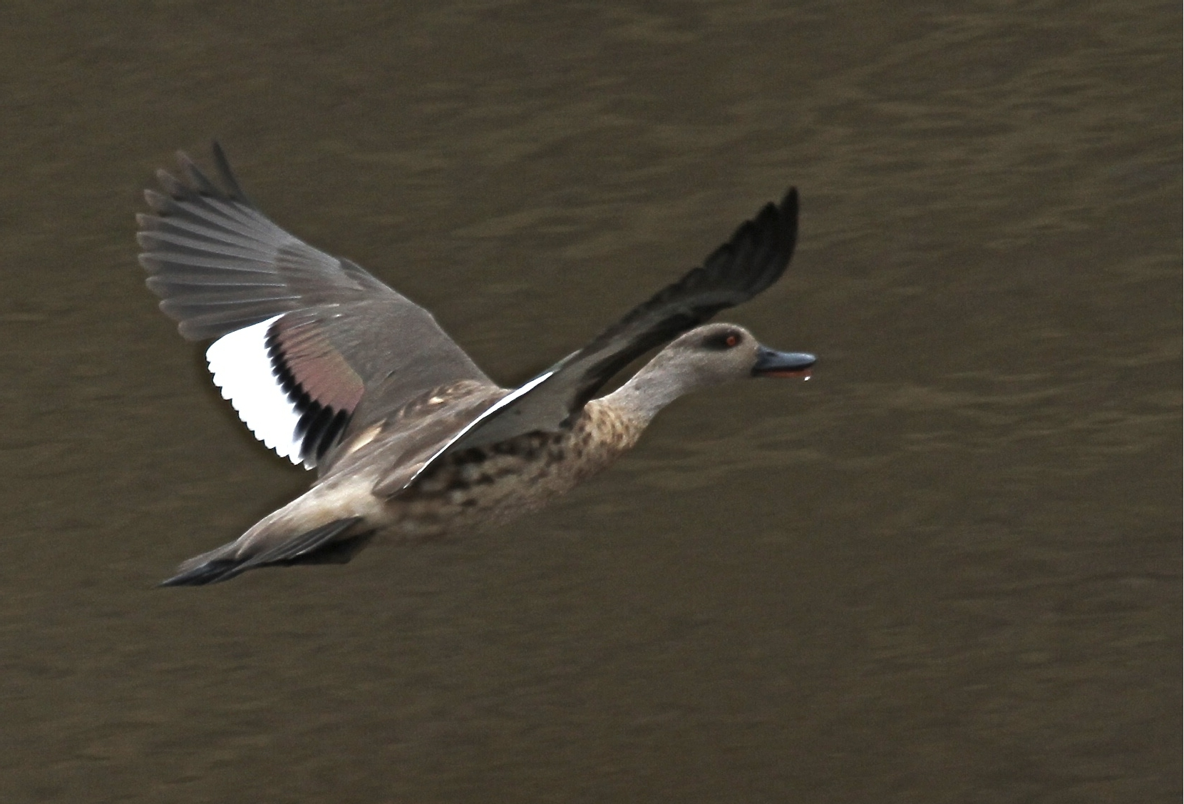 Mountain Lake at ~4000 m (~13100 ft) - Peru